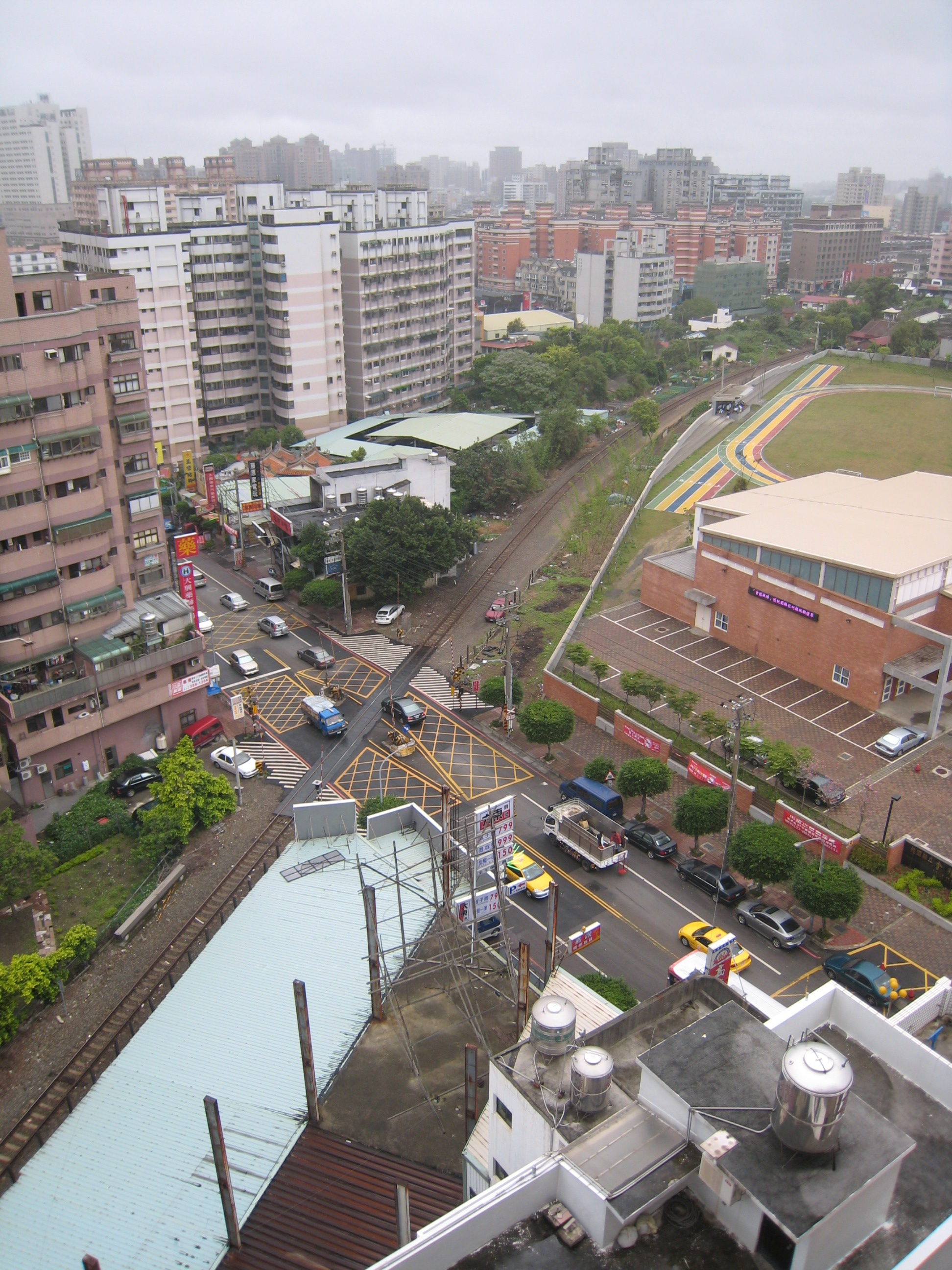 Overlooking a level crossing at Dasing Road in Taoyuan City,near Kuai-Ji Junior High School.中文（台灣）: 鳥瞰桃園市大興路鐵路平交道，會稽國中附近。